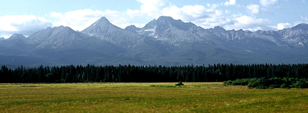 High Tatras, south view